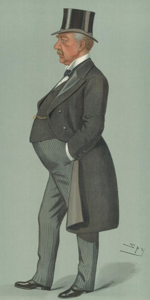 Portrait of William Lawies Jackson MP (1840-1917), later 1st Baron Allerton. Caption read "North Leeds".